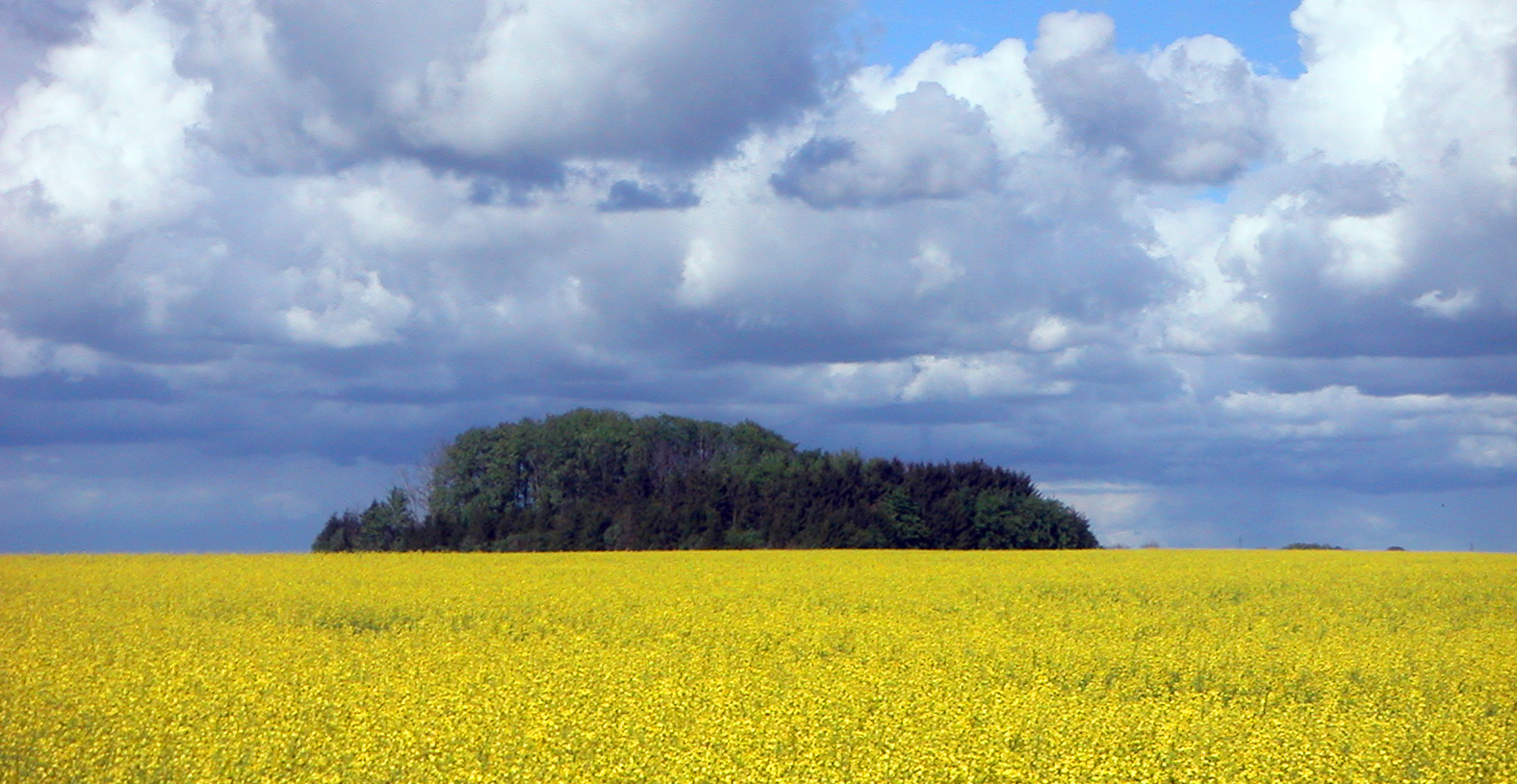 A field of blooming rapeseed in Scania, Sweden.